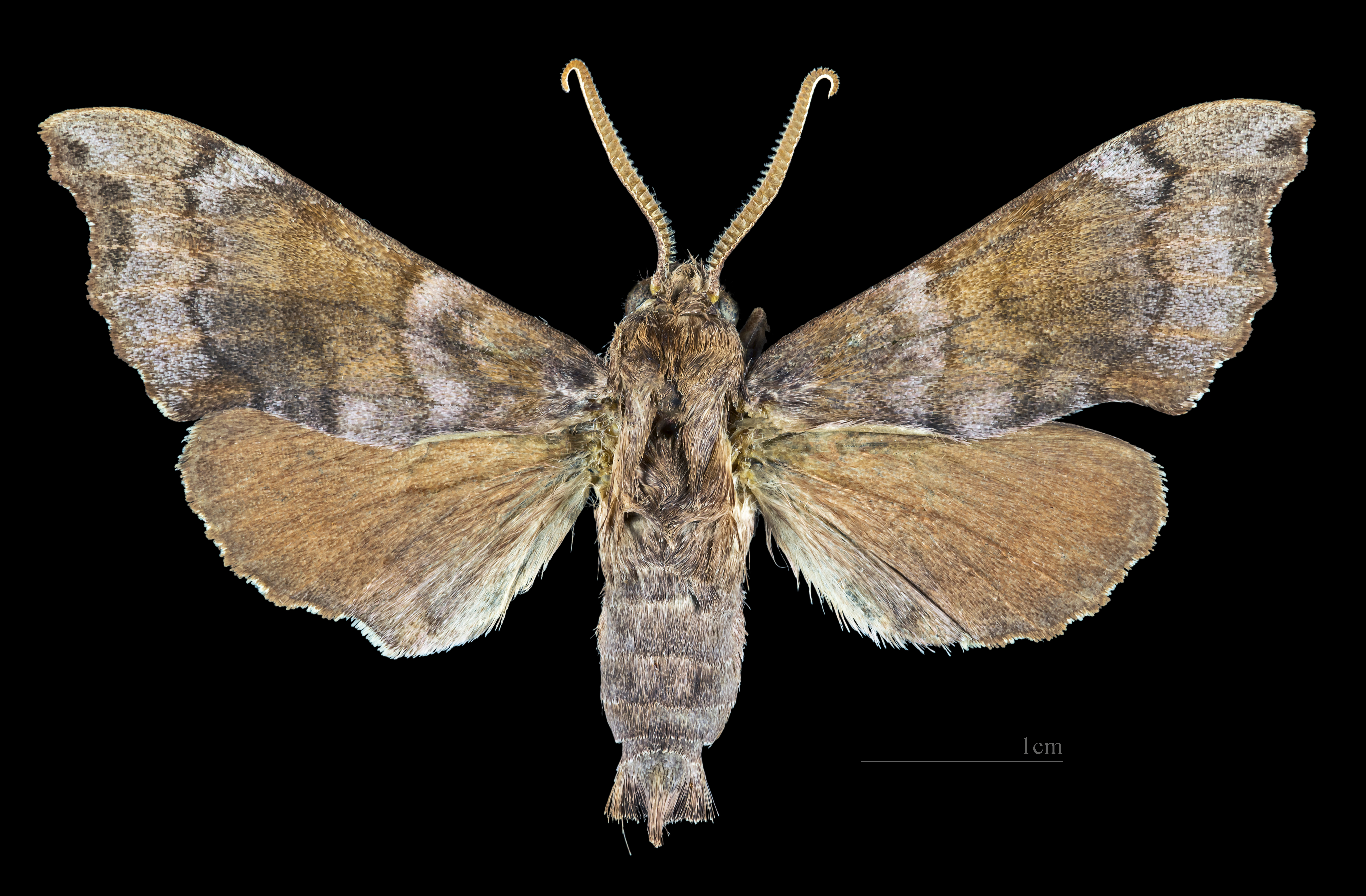 Cypoides chinensis - Dorsal side Collection of the Mathematician Laurent Schwartz